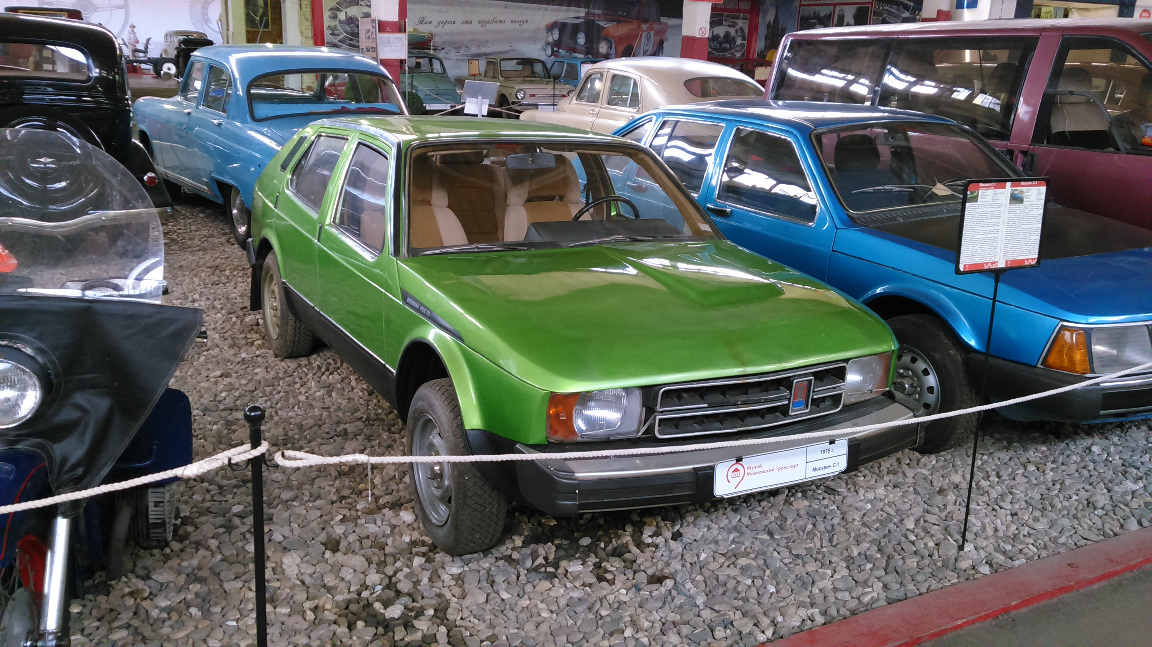 Moskvitch C1 "Meridian" prototype, built circa 1976.